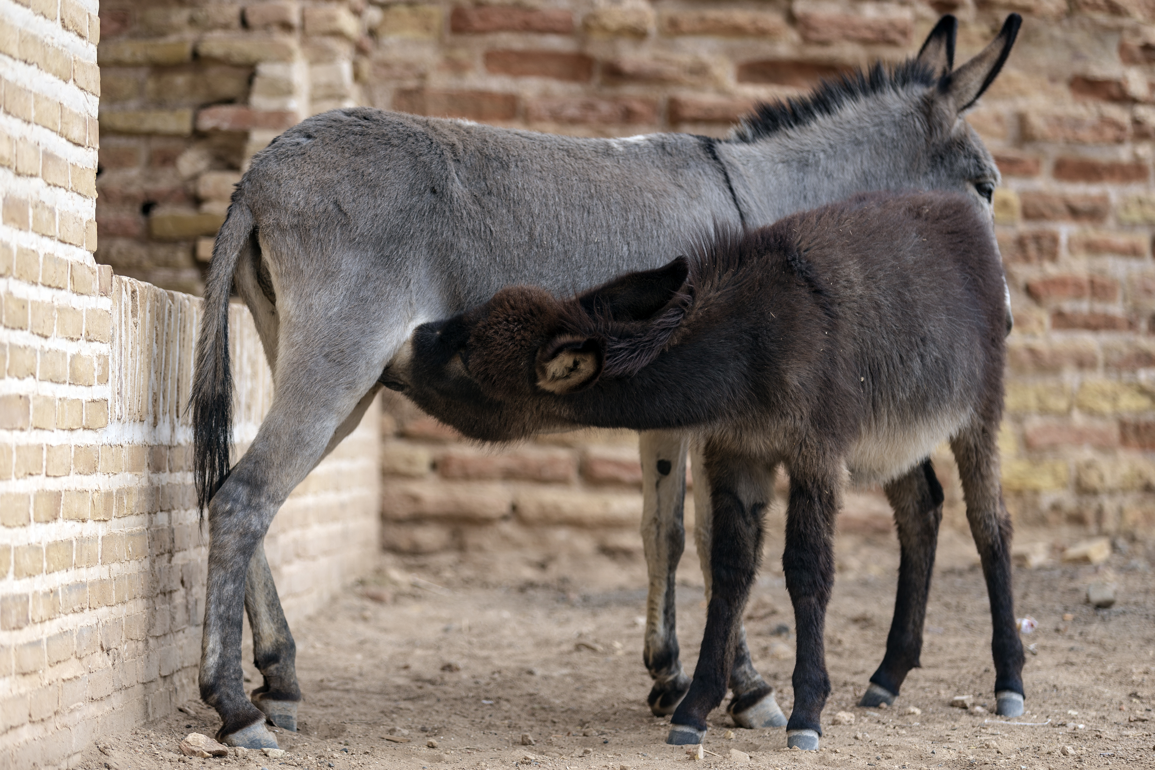 Donkey milk is the milk from the domesticated donkey. It has been used since antiquity for cosmetic purposes as well as infant nutrition.